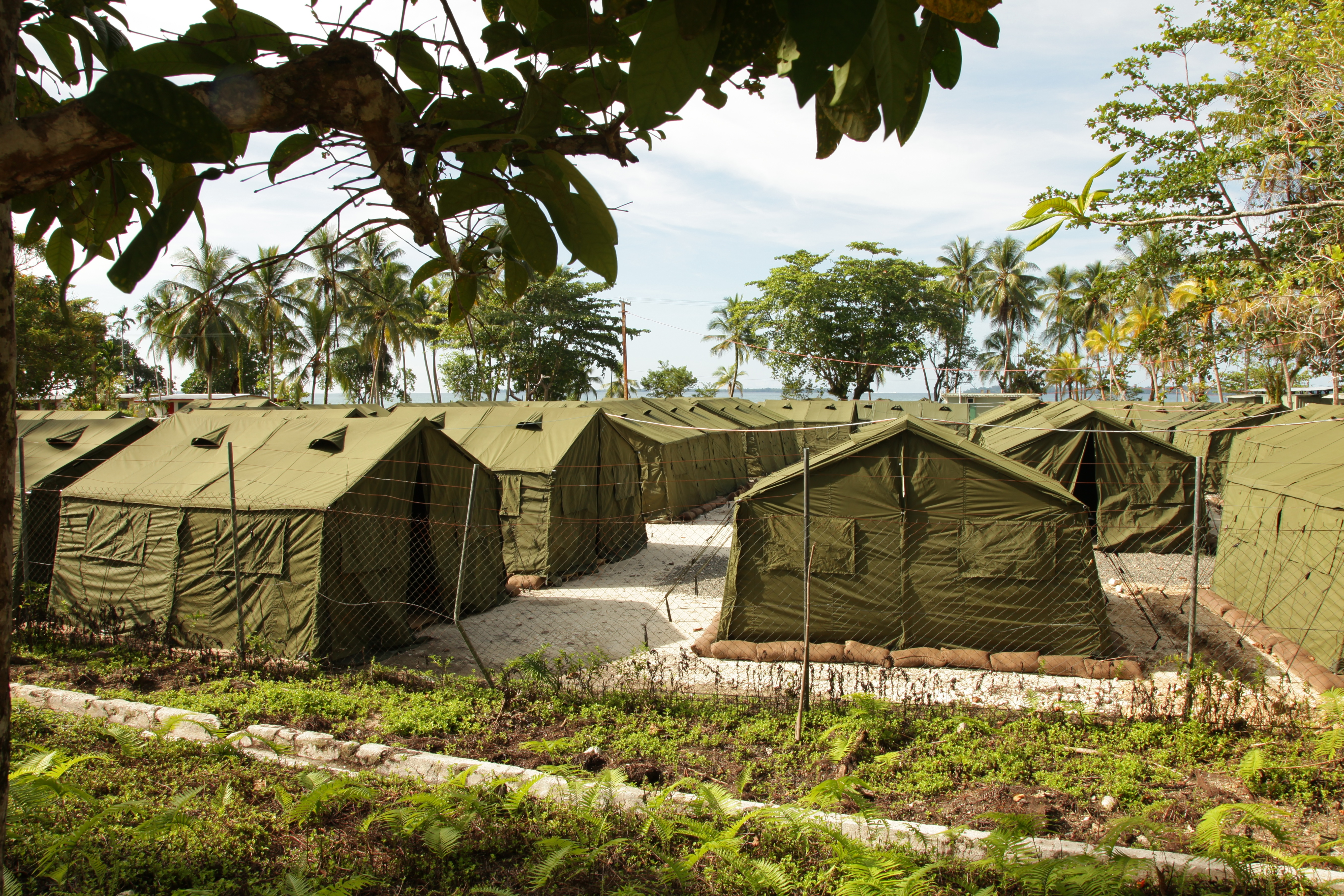 Manus Island regional processing facility